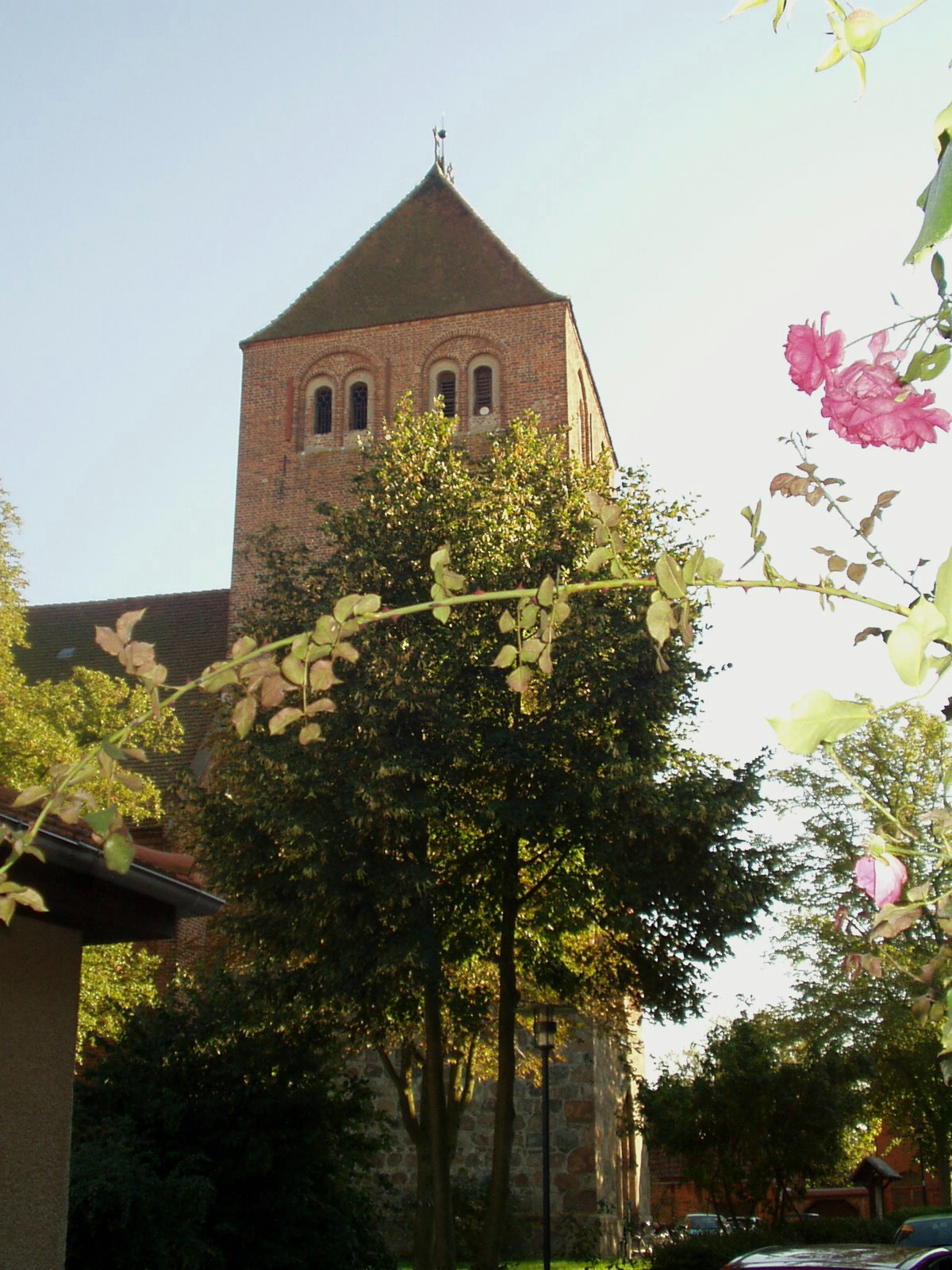 Churg in the center of Plau am See, Germany